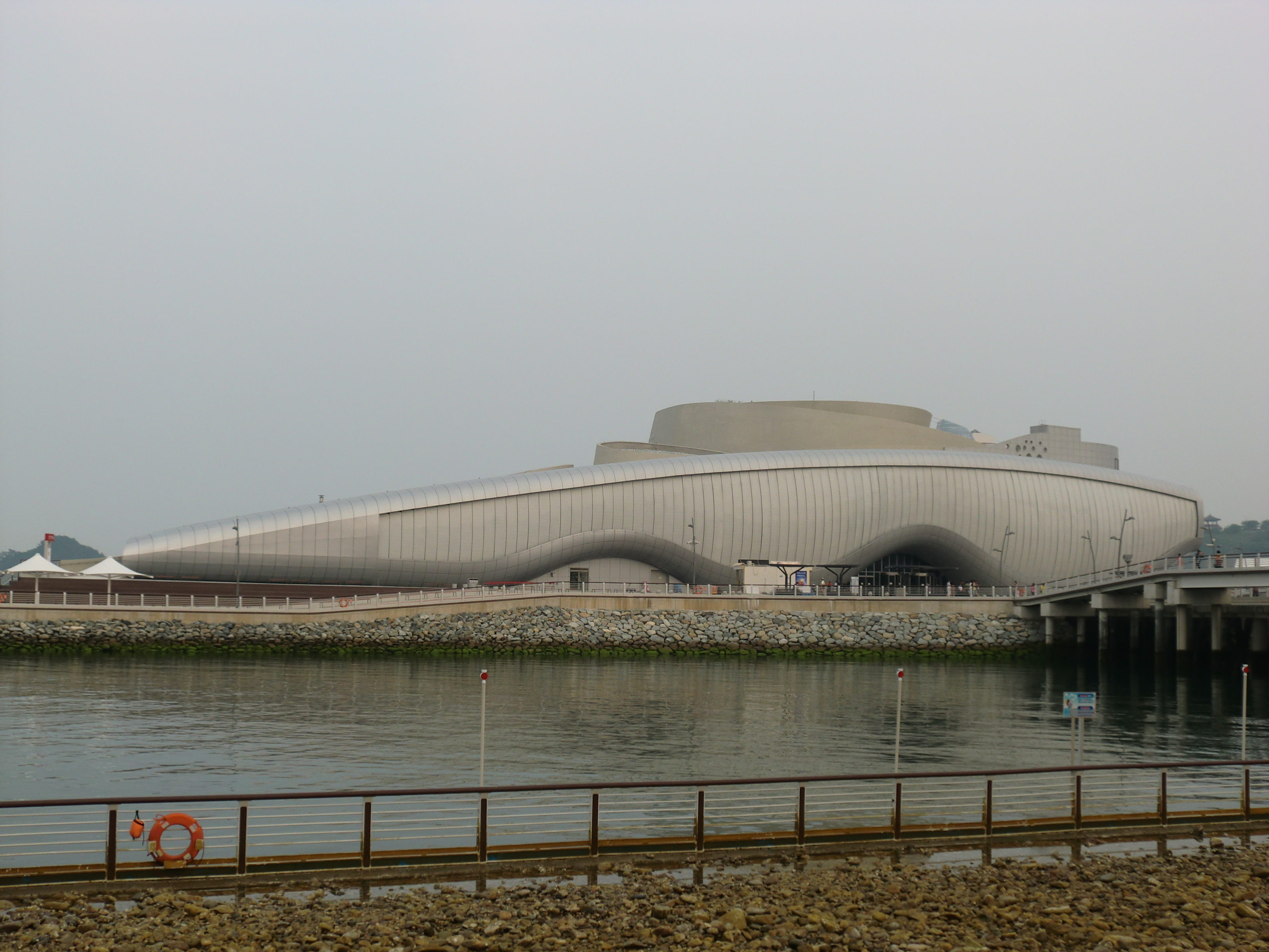 Expo 2012 Theme Museum